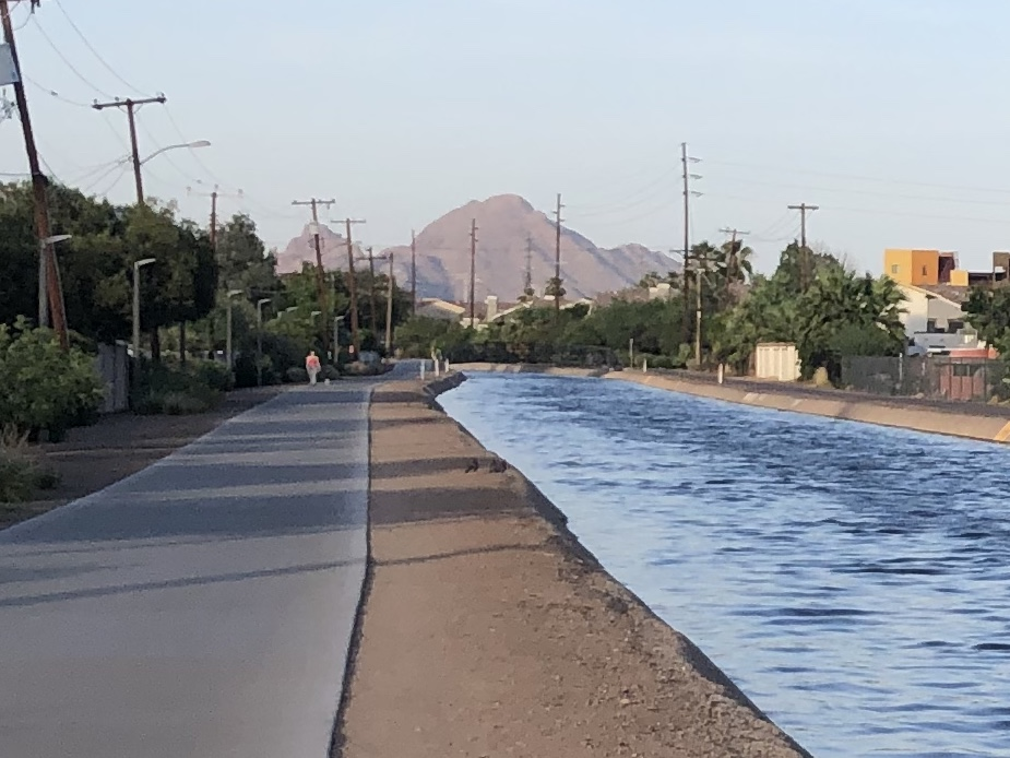 Grand Canal in Phoenix Arizona near 3rd Avenue. Camelback Mountain in the background. Picture taken June of 2020